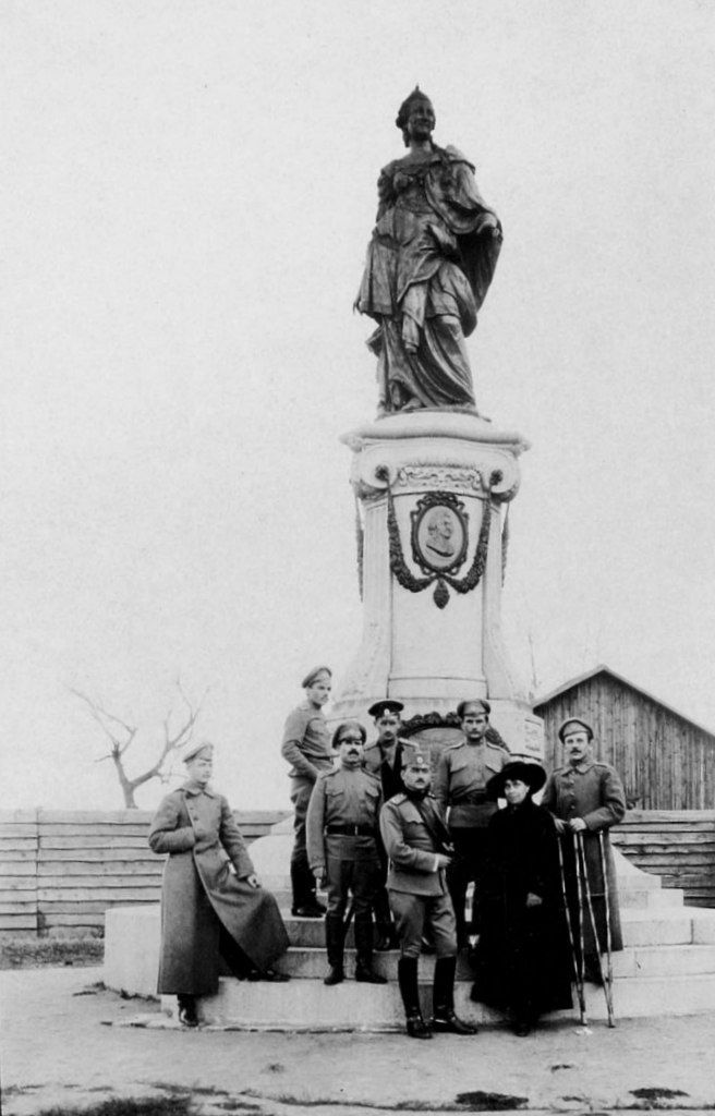 Фото начала 20 века.